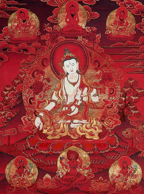 500px provided description: White Tara On Red [#? ,#?? ,#???? ,#?? ,#??? ,#????? ,#??? ,#???????]